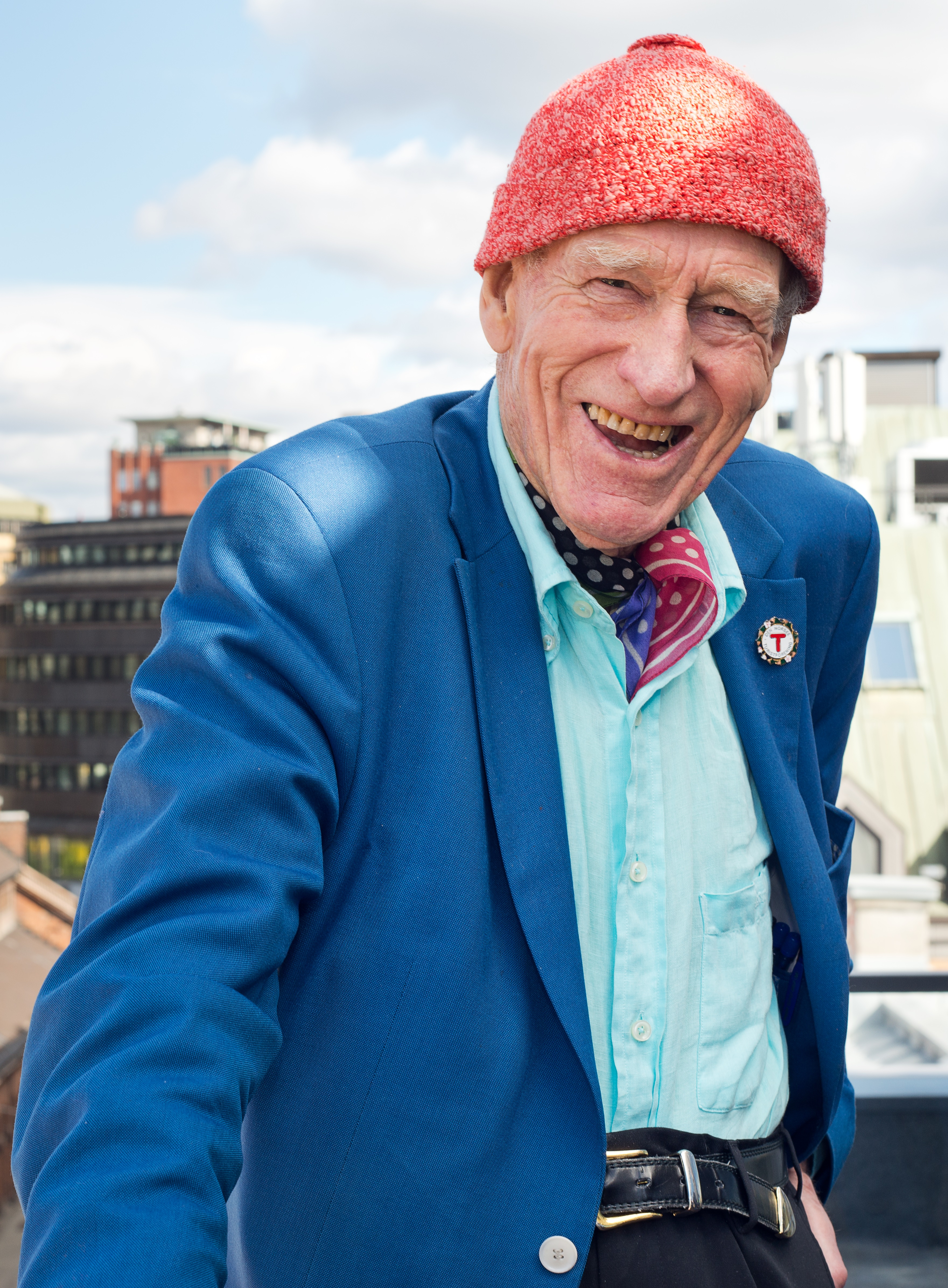 Norwegian real estate tycoon and billionaire, Olav Thon.